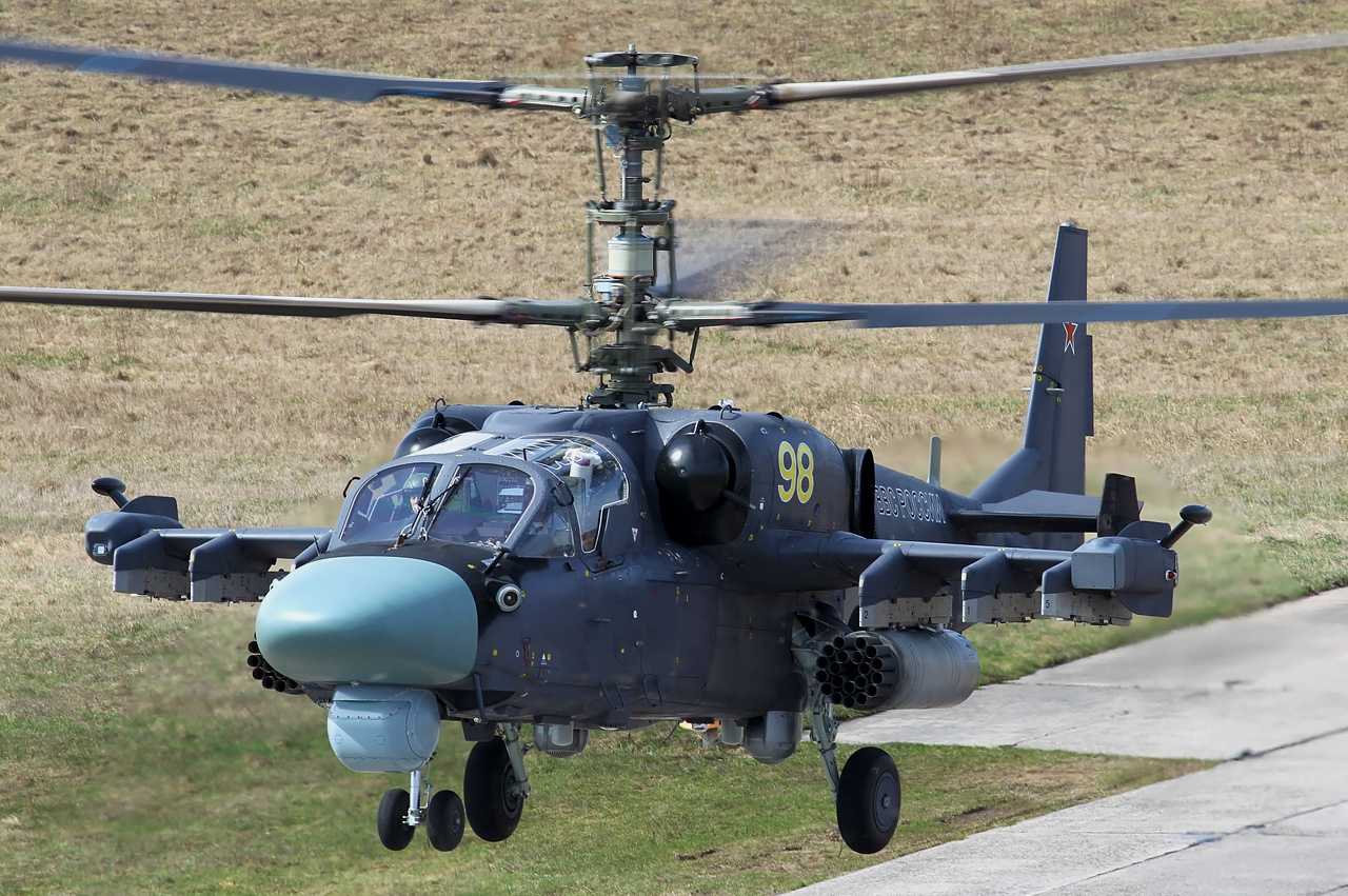 Russian Air Force Kamov Ka-52